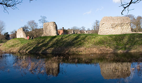 Berkhamsted Castle Jan 2007 Author Robert Stainforth